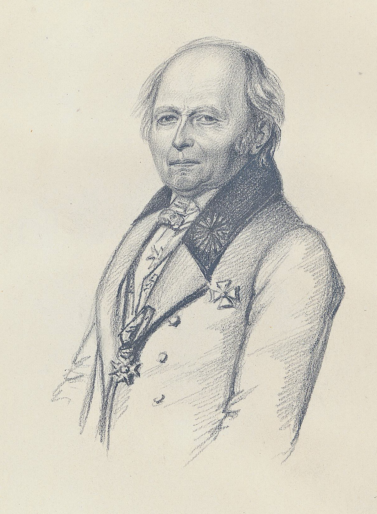 Christopher Carlander (1759-1848)